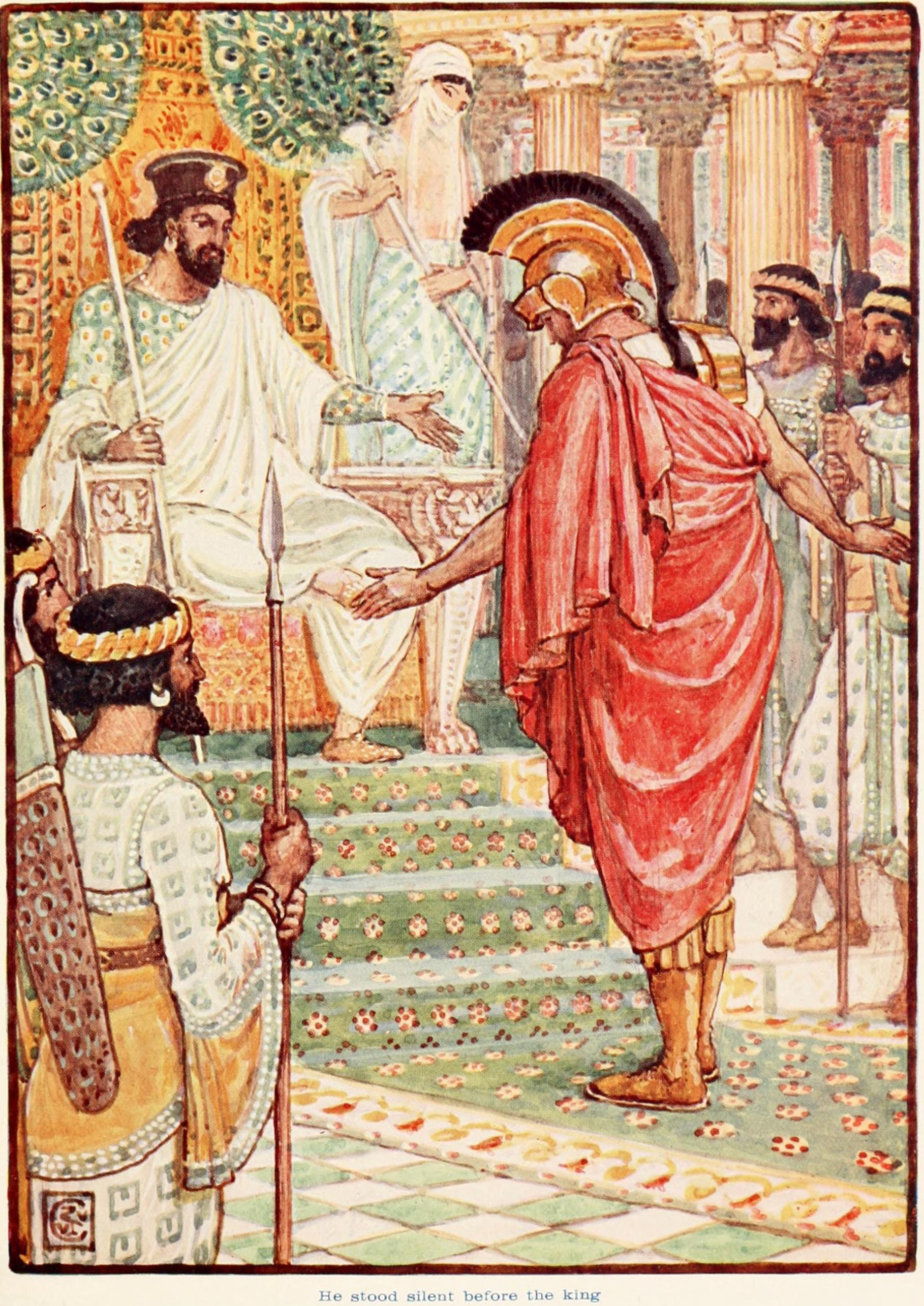 These stories from the history of ancient Greece begin with myths and legends of gods and heroes and end with the conquests of Alexander the Great. The book is accessible and well organized, but it is considerably more detailed than some other introductory texts. It covers Greek history from the age of Mythology to the rise of Alexander, but because of its length we do not recommend it for 5th grade or younger. It is an excellent reference, thoroughly engaging, and a good candidate for a somewhat older student's first foray into Greek history.